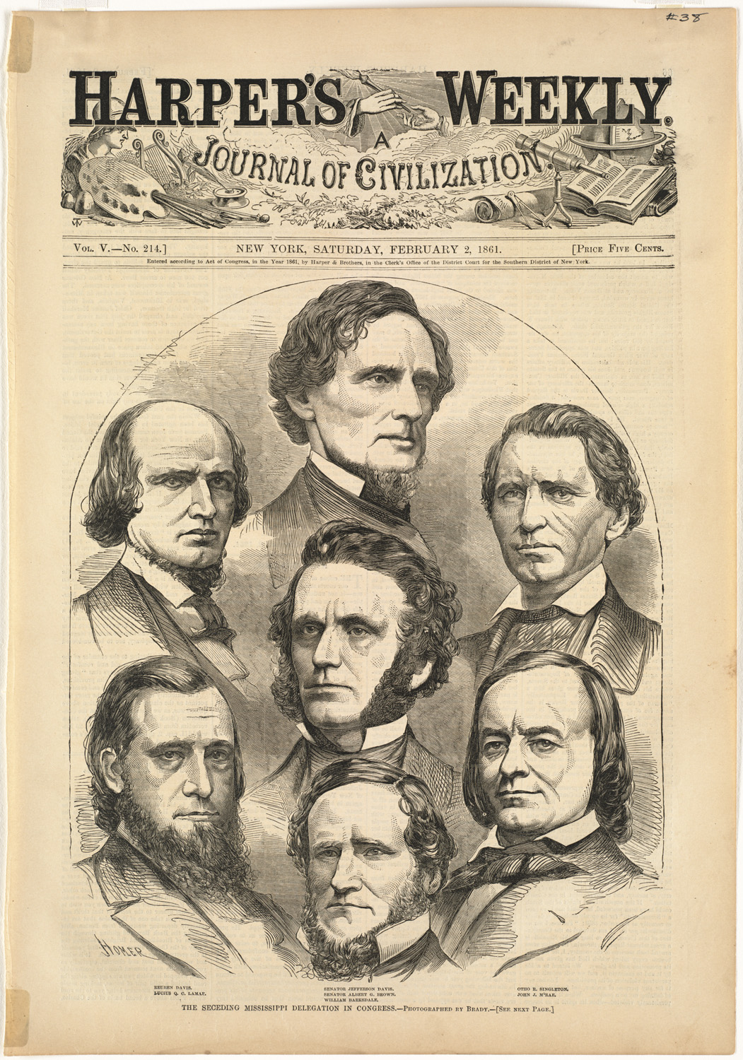 File name: 10_09_000038 Title: The seceding Mississippi delegation in Congress Creator/Contributor: Homer, Winslow, 1836-1910 (artist) Date issued: 1861-02-02 Physical description: 1 print : wood engraving Genre: Wood engravings; Periodical illustrations Notes: Published in: Harper's Weekly, Volume V, 2 February 1861, p. 65.; Signed as captions to images: Reuben Davis, Lucius Q. C. Lamar, Senator Jefferson Davis, Senator Albert G. Brown, William Barksdale, Otho R. Singleton, John J. M'Rae.; Photographed by Brady.; Signed lower left: Homer. Collection: Winslow Homer Collection Location: Boston Public Library, Print Department Rights: No known restrictions Flickr data on 2011-08-11: Camera: Sinar AG Sinarback 54 FW, Sinar m Tags: Winslow Homer User: Boston Public Library BPL